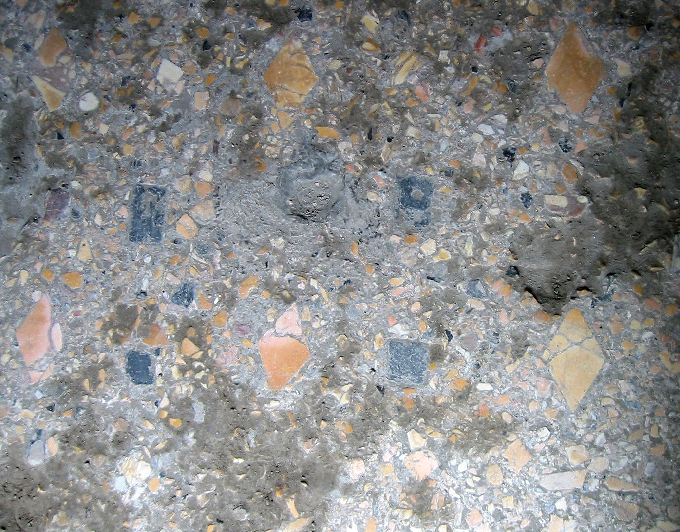 Terrazzo-floor in a house at ancient Herculaneum in Campania in Italy.